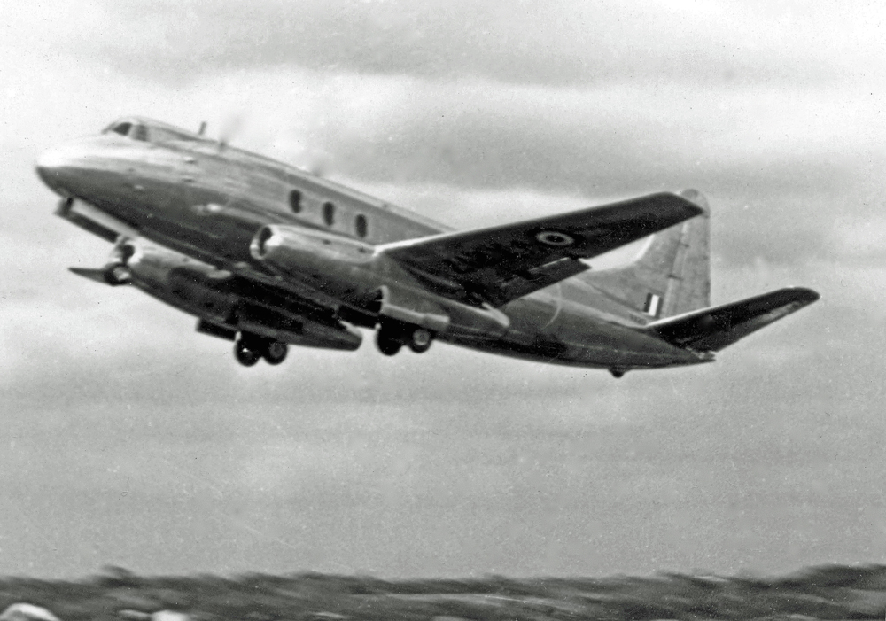 The Vickers Viscount 663 test aircraft fitted with two Rolls-Royce RB.44 Tay turbojet engines